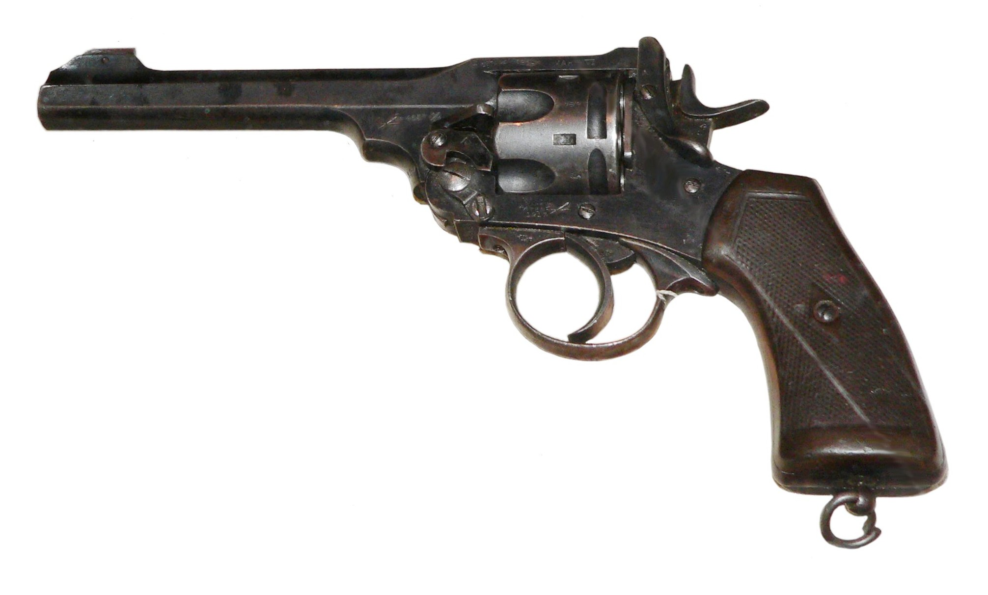 Original Enfield revolver, hammer with a spur